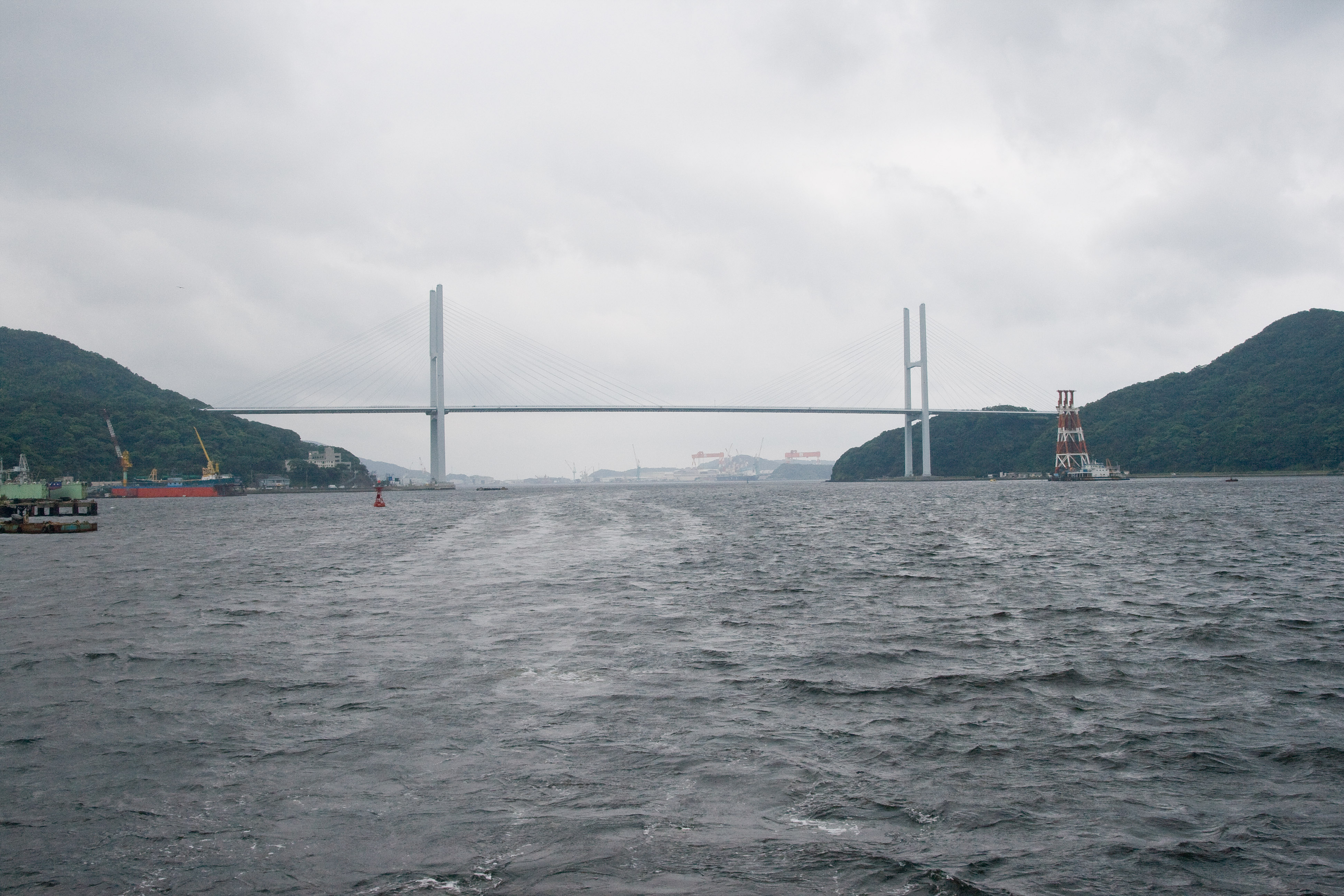 Megami Bridge, Nagasaki City, Nagasaki Pref., Japan.